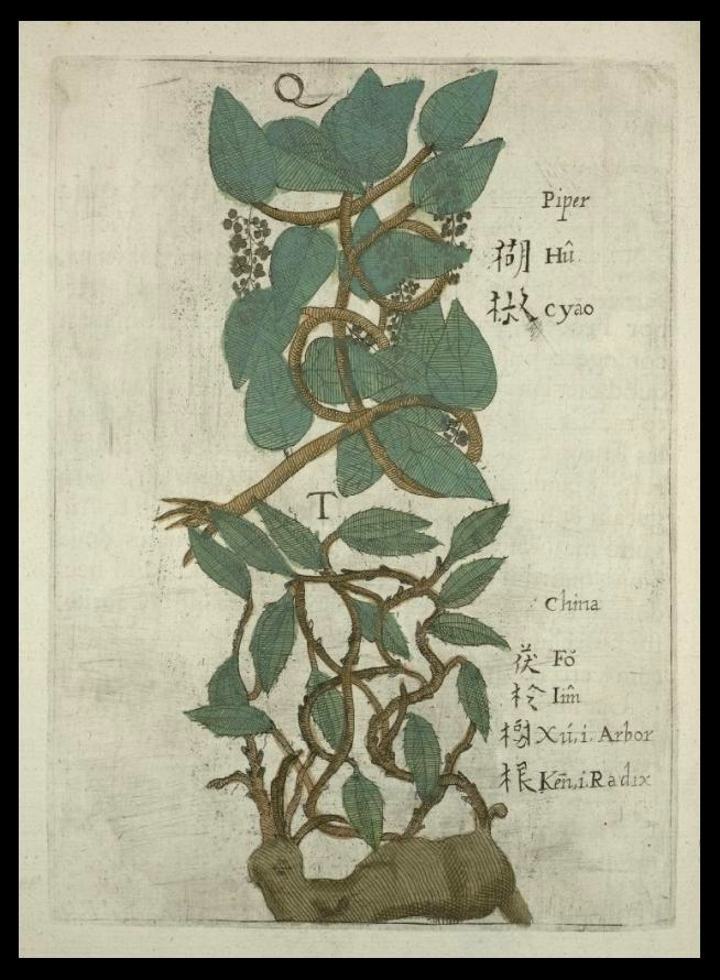 One of the earliest natural history books about China. Jesuit Missionary author. (obviously includes some non-Chinese {and non-floral} species)